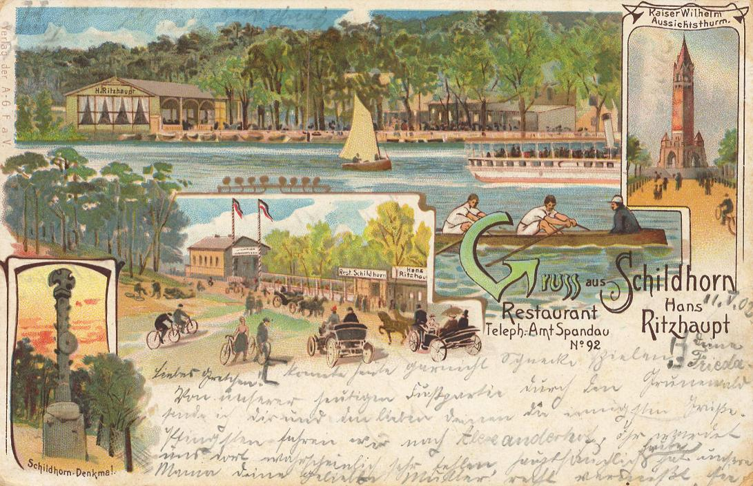 Picture postcard showing Schildhorn, Jürgenlanke, Wirtshaus Schildhorn (restaurant) und Grunewaldturm. Schildhorn (german for: shieldhorn) is a headland in the river Havel, situated in the protected area Grunewald in the homonymous quarter Grunewald of Berlins borough Charlottenburg-Wilmersdorf, Germany.